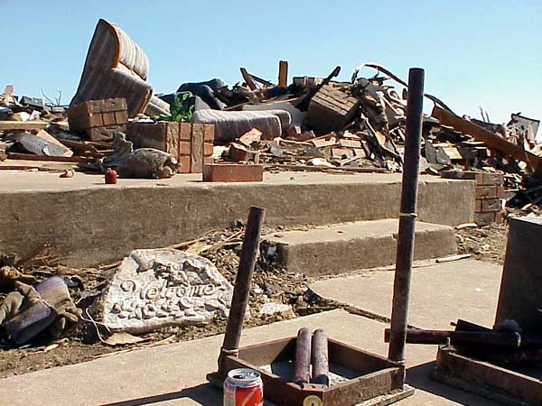 A home torn apart by the Moore, Oklahoma F5 tornado on May 3rd 1999.